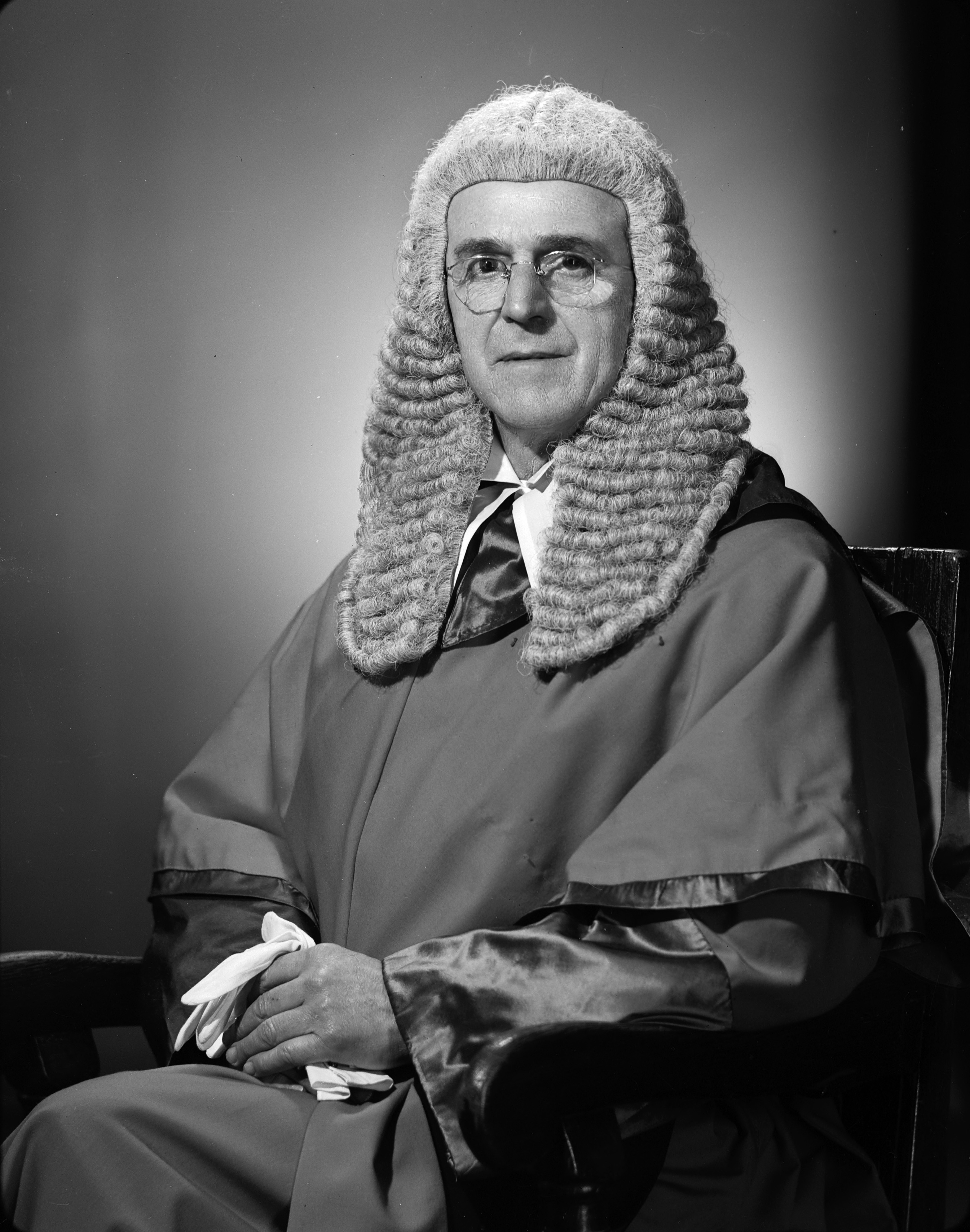 Harold Eric Barrowclough, circa 1954. Photograph taken by Stanley Polkinghorne Andrew.